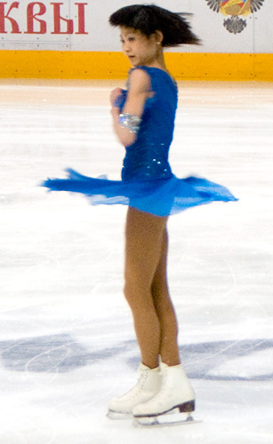 Yuko Kawaguti, in the 2010 Cup of Russia, free skating. This photo is an example of a classical illustration of conservation of angular momentum in physics. When a spinning figure skater pulls in her arms, reducing her moment of inertia, she rotates faster.